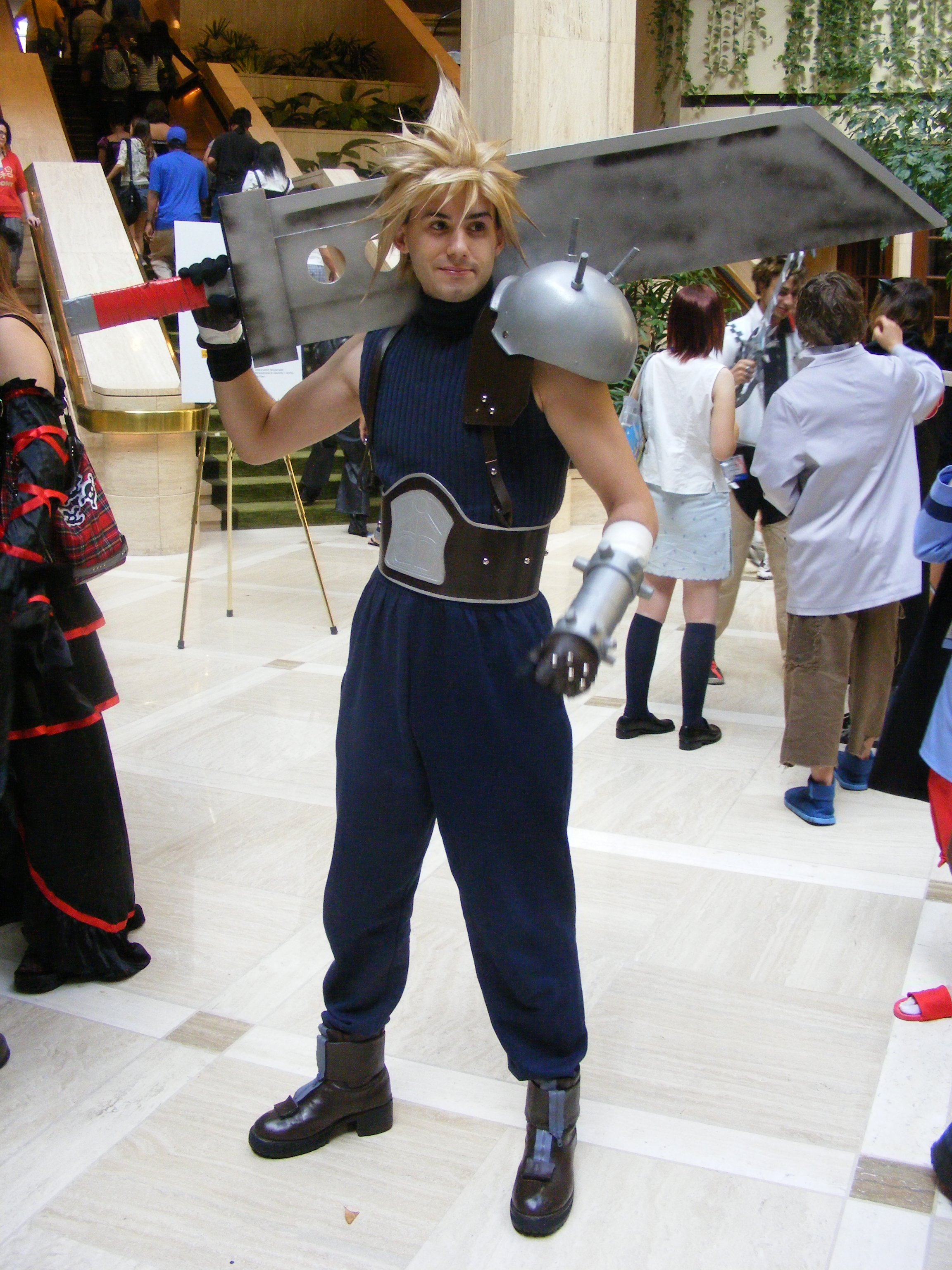 Cosplay photo taken at AWA 14. Cloud poses with his Buster Sword. (Final Fantasy VII)